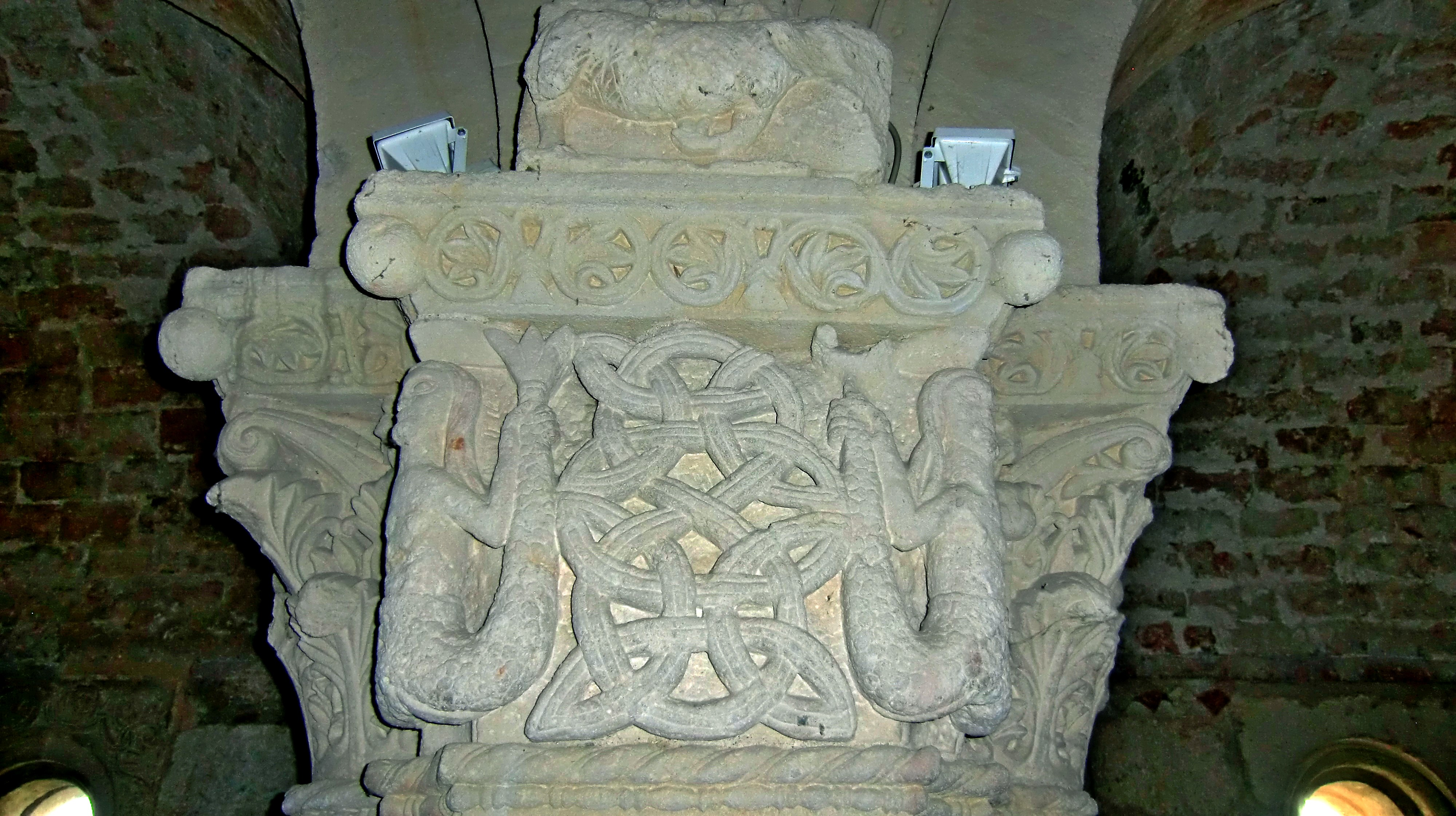 Pieve di San Lorenzo, Montiglio Monferrato (AT), Italy, romanesque church, XII century, interior of the church: a capital with two tailed sirens and a interlaced geometric pattern